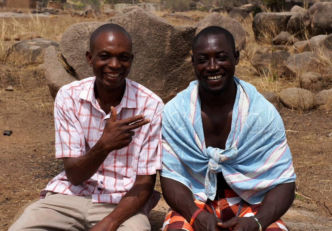 Tallensi men